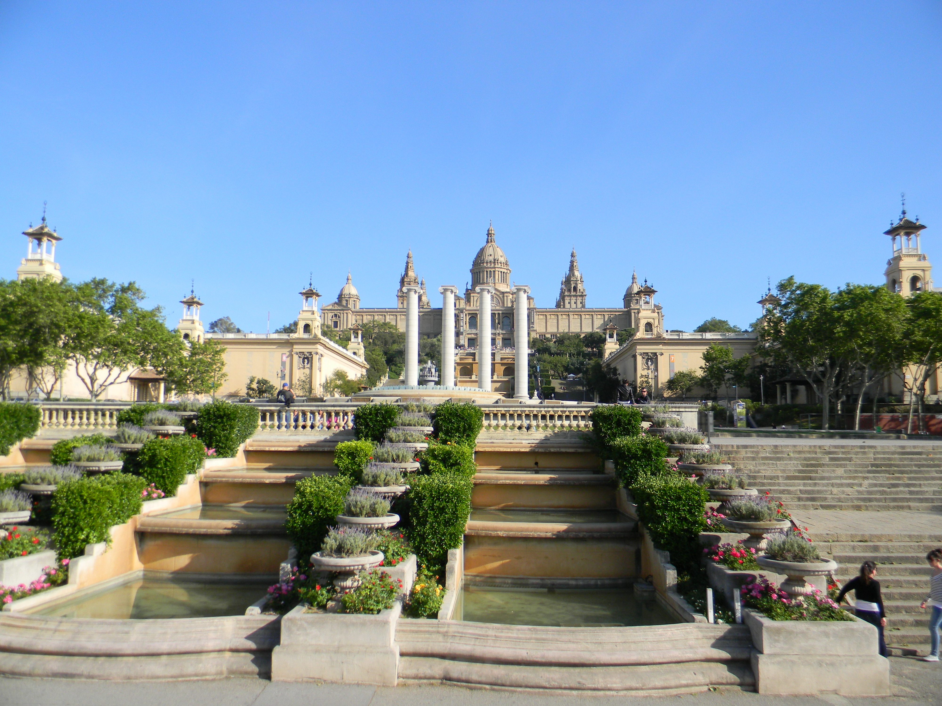 Views of Barcelona, Spain